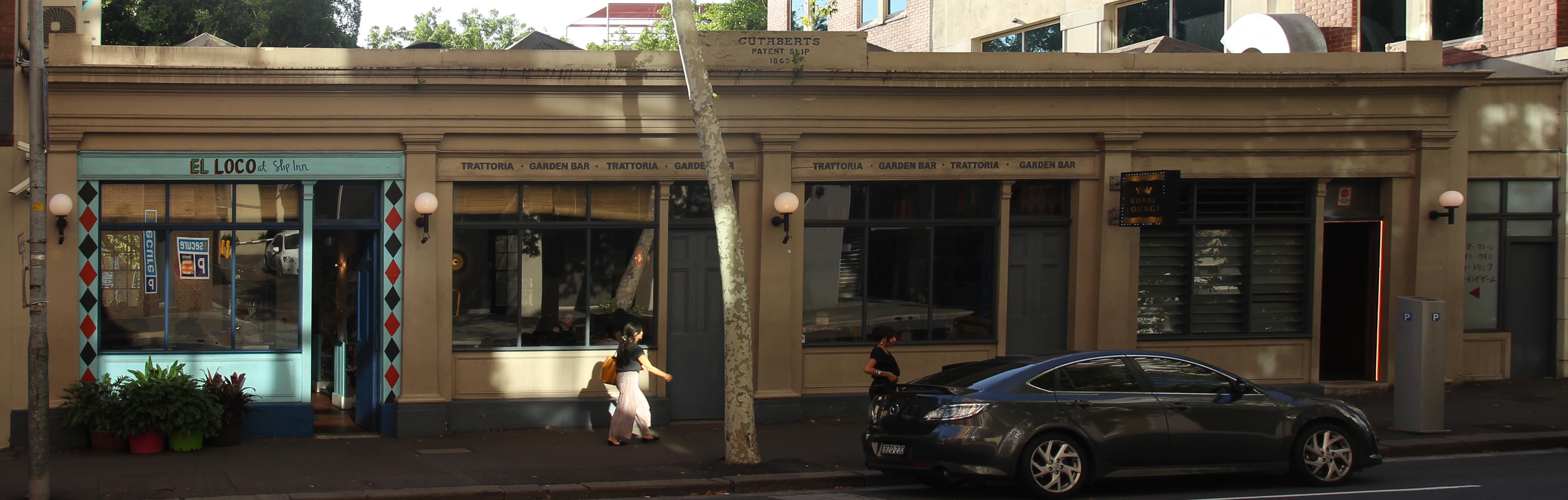 The Cuthbert's Patent Slip building located adjacent to The Slip Inn in Sussex Street, in the Sydney central business district in the City of Sydney, New South Wales, Australia